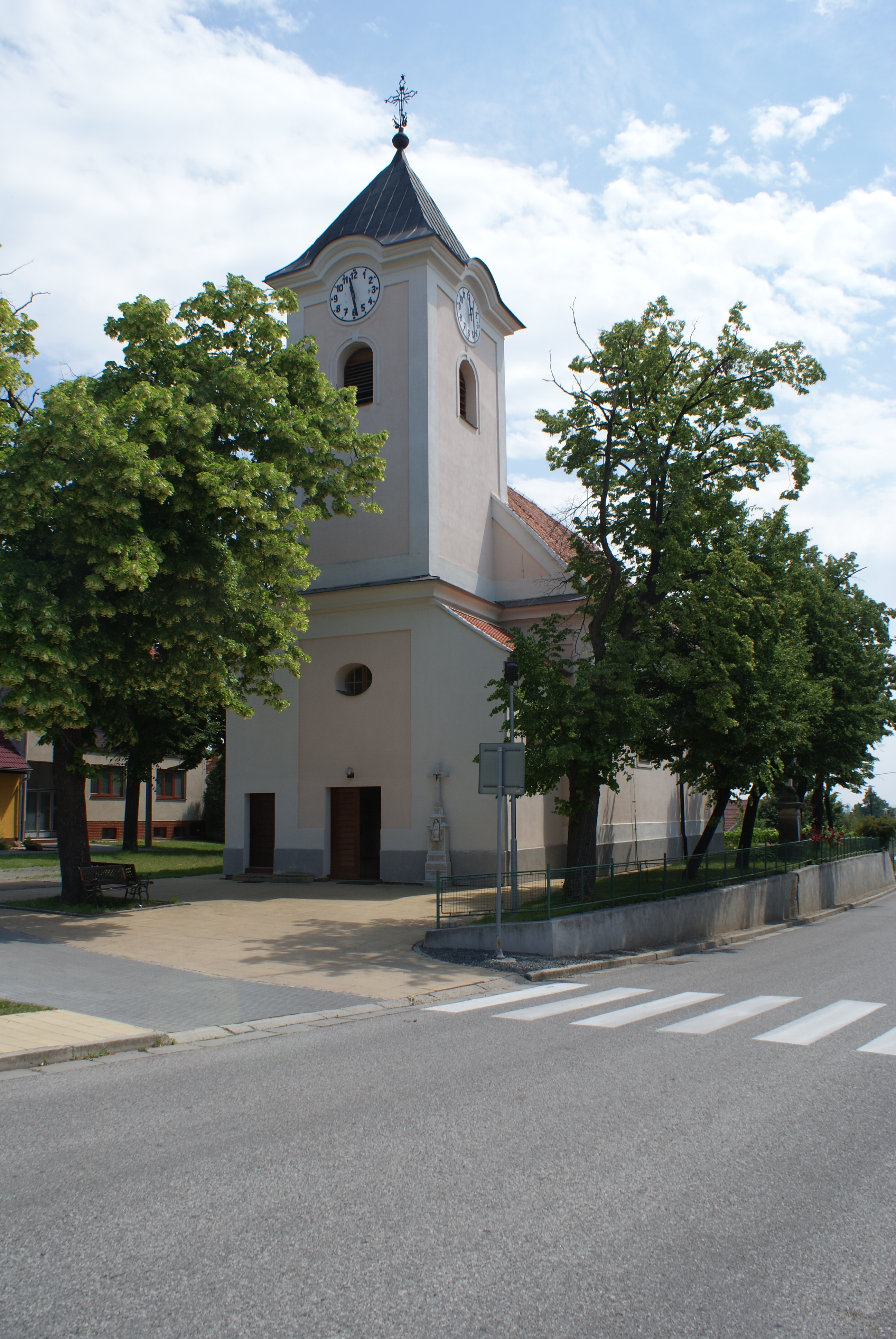 Šakvice, a village in Břeclav District, Czech Republic, church of St Barbara.